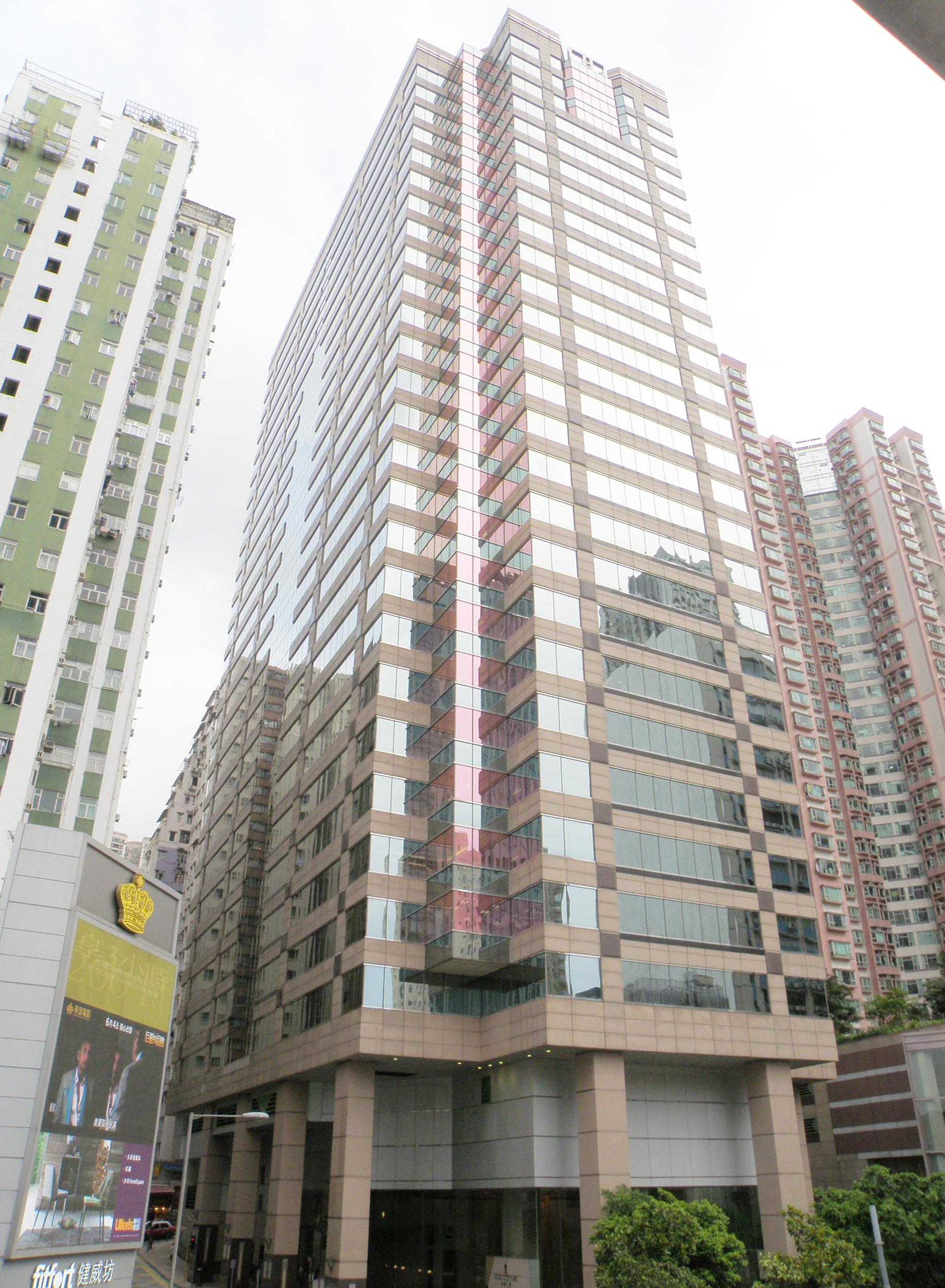 Island Place Tower in North Point, Hong Kong.